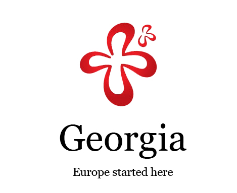 Georgian National Tourism Administration logo